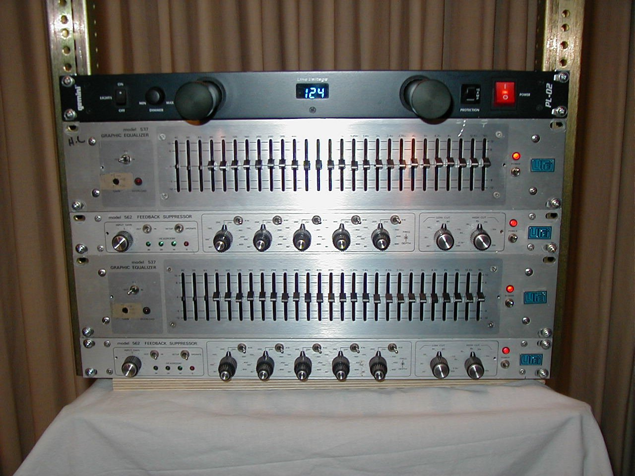 Professional sound analog equalization rack with UREI graphic and parametric EQs